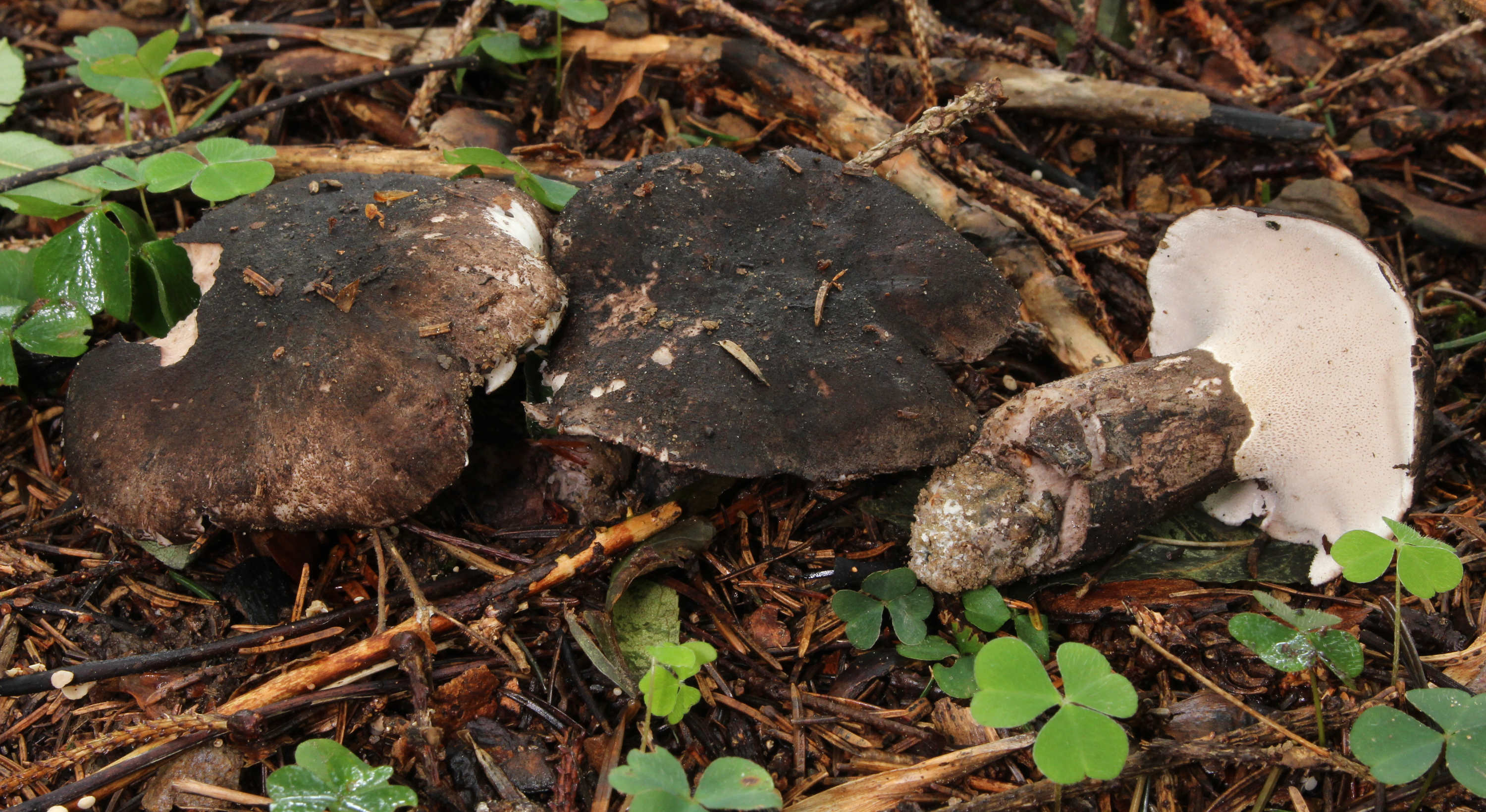 Boletopsis Leucomelaena, Family: Bankeraceae, Location: Germany, Oberstaufen